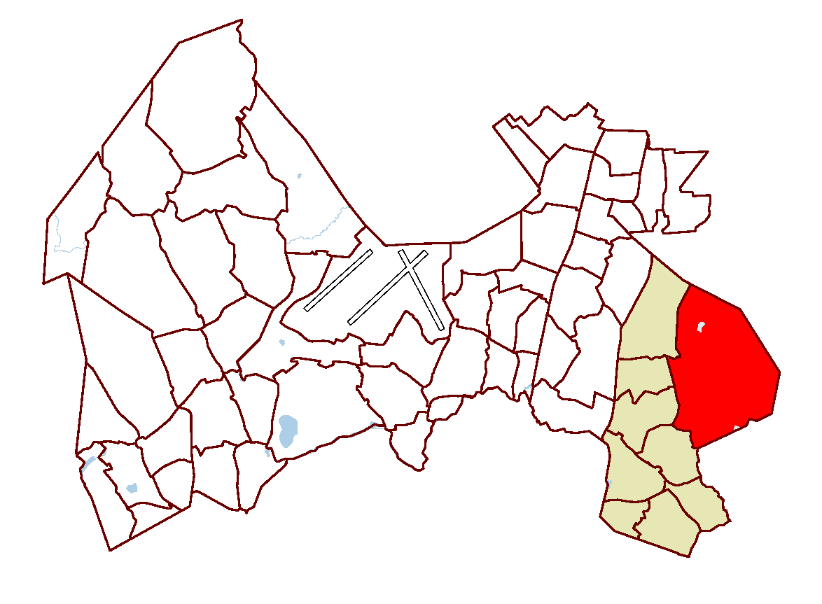 District of Sotunki (marked red), within Hakunila service area (marked light brown) in Vantaa, Finland